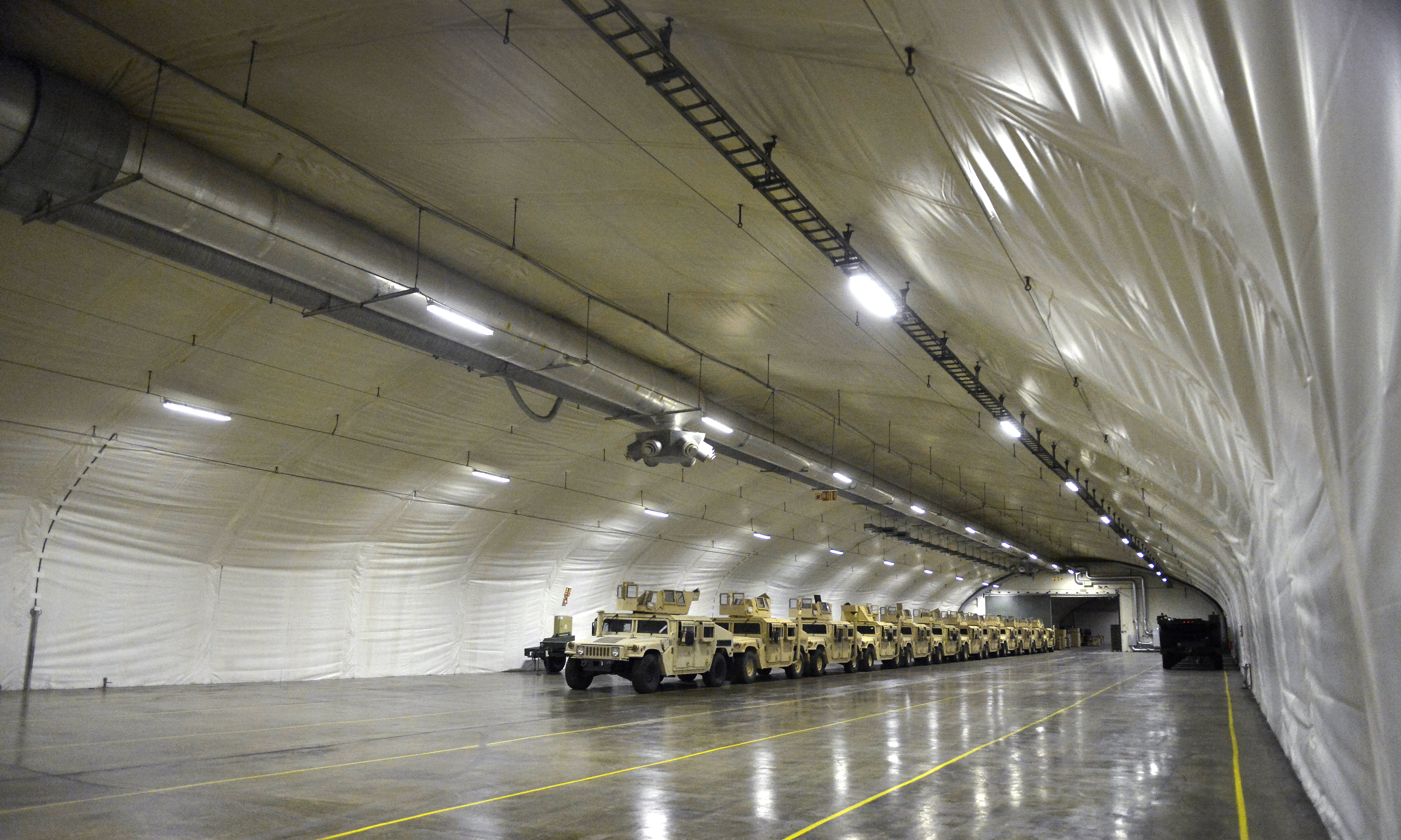 Neatly parked and carefully maintained military vehicles sit at the ready at the underground U.S. Marine Corps Prepositioning Program-Norway, near Trondheim, Norway, Sept. 9, 2015. (DoD Photo by Glenn Fawcett/Released)